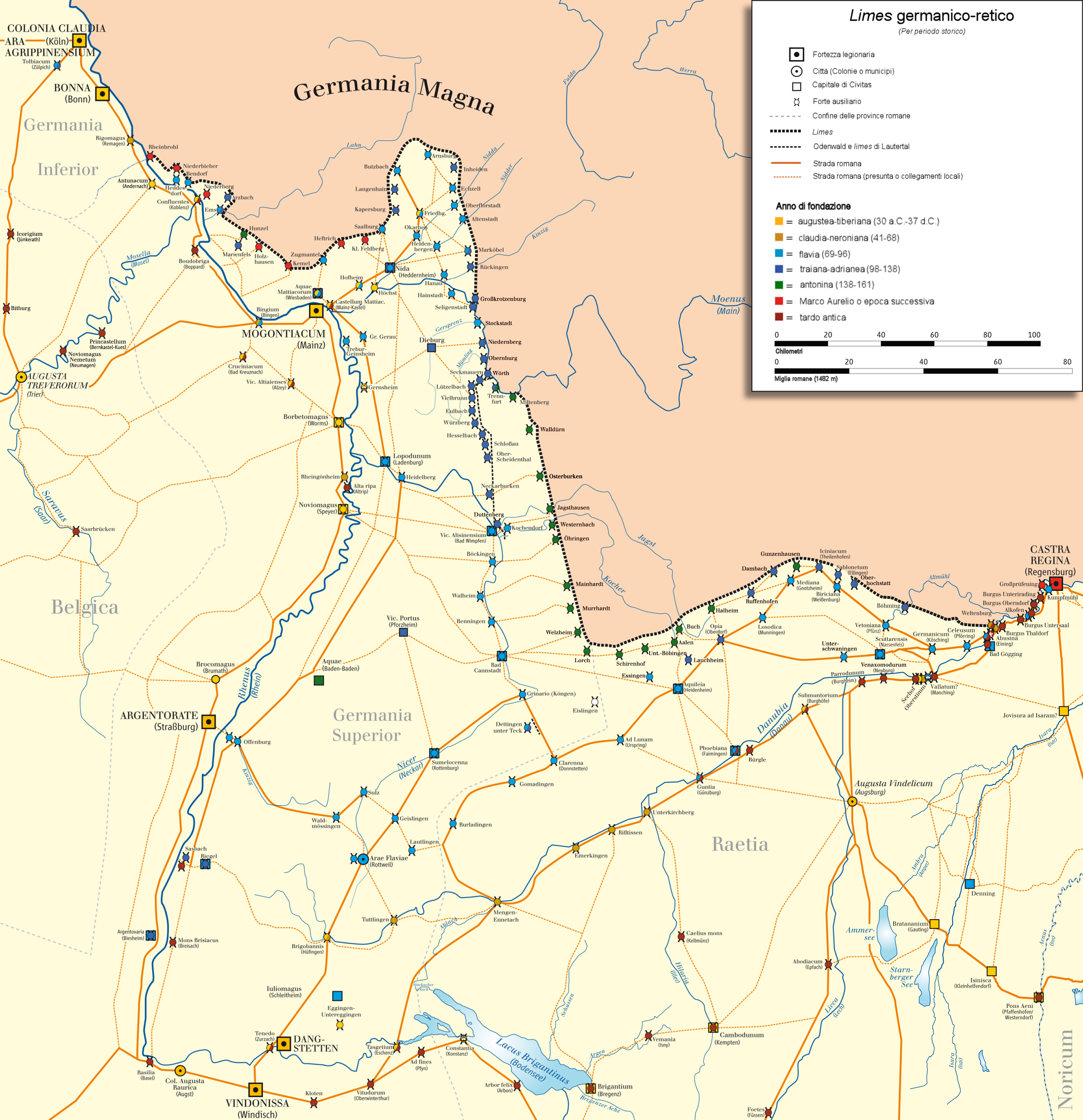 Italian version of File:Limes2.png. Original map was made by Ziegelbrenner.